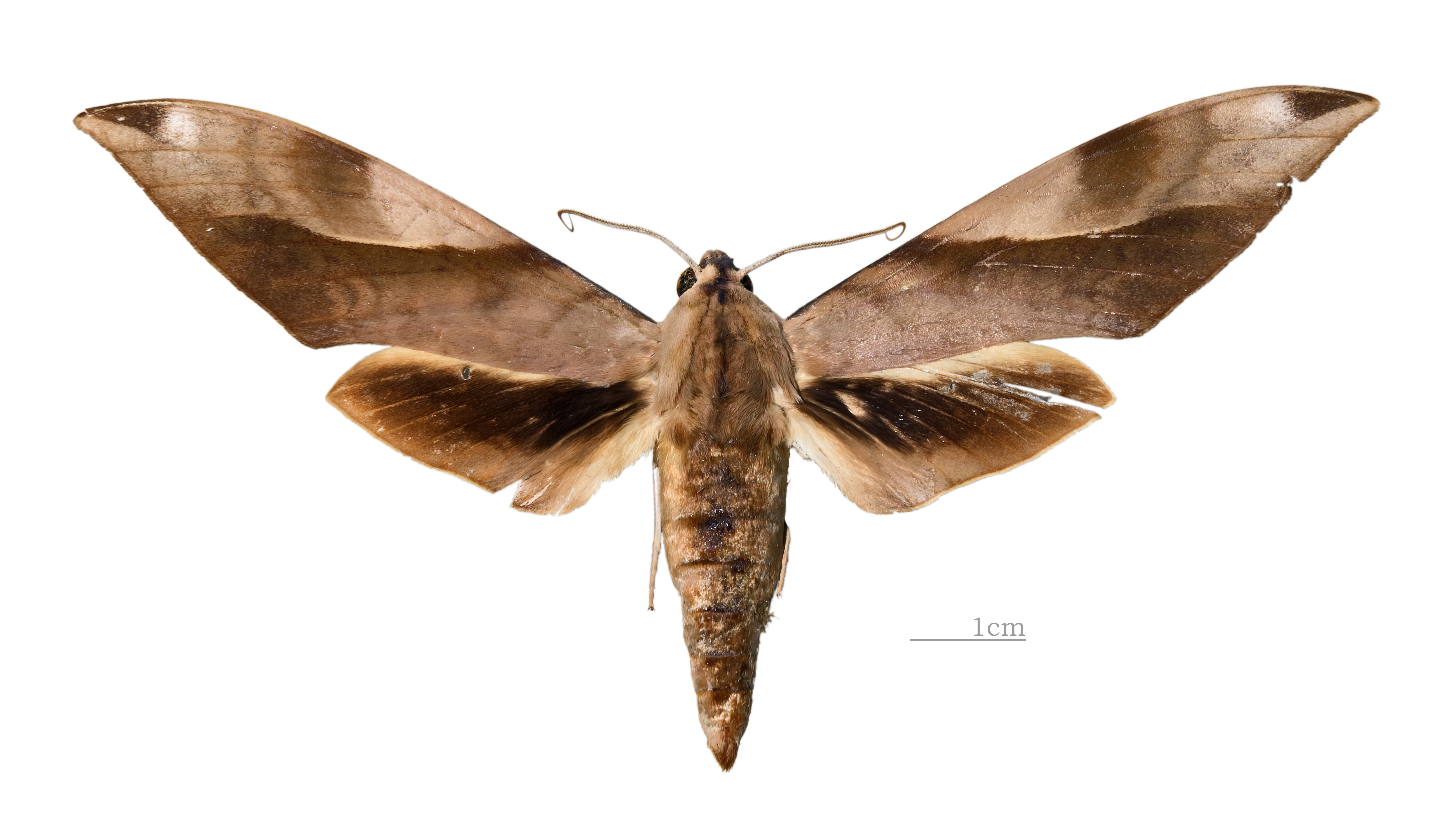 Clanis schwartzi Paratype - Dorsal side